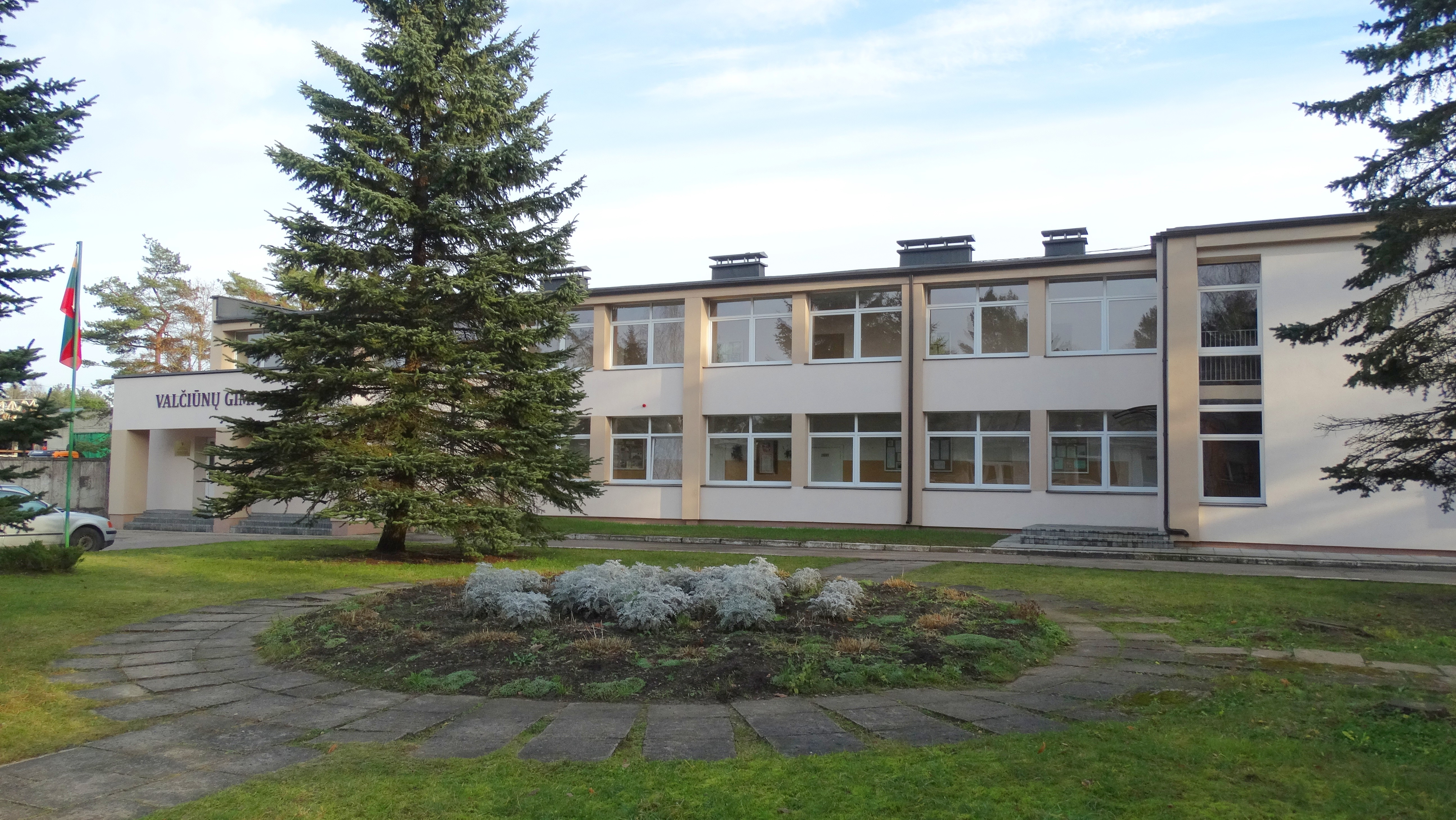 Gymnasium, Valčiūnai, Vilnius District, Lithuania